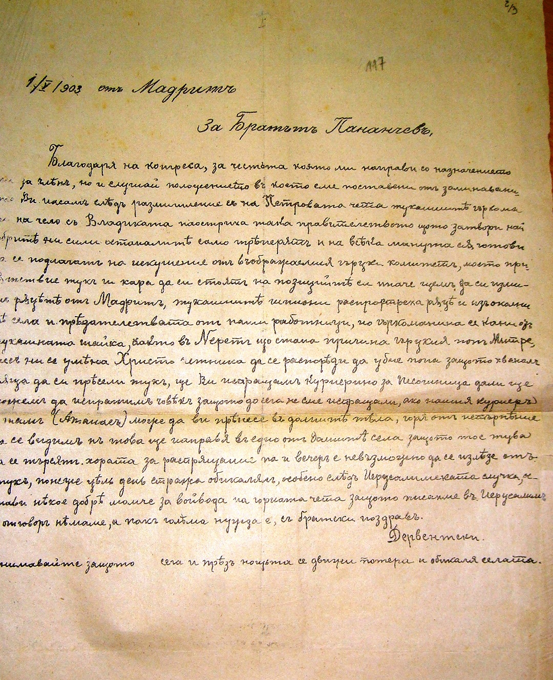 Letter from Konstantin Gruev, legal IMARO member in Florina (called Madrid), using the pseudonym Derventski to Georgi Papanchev.